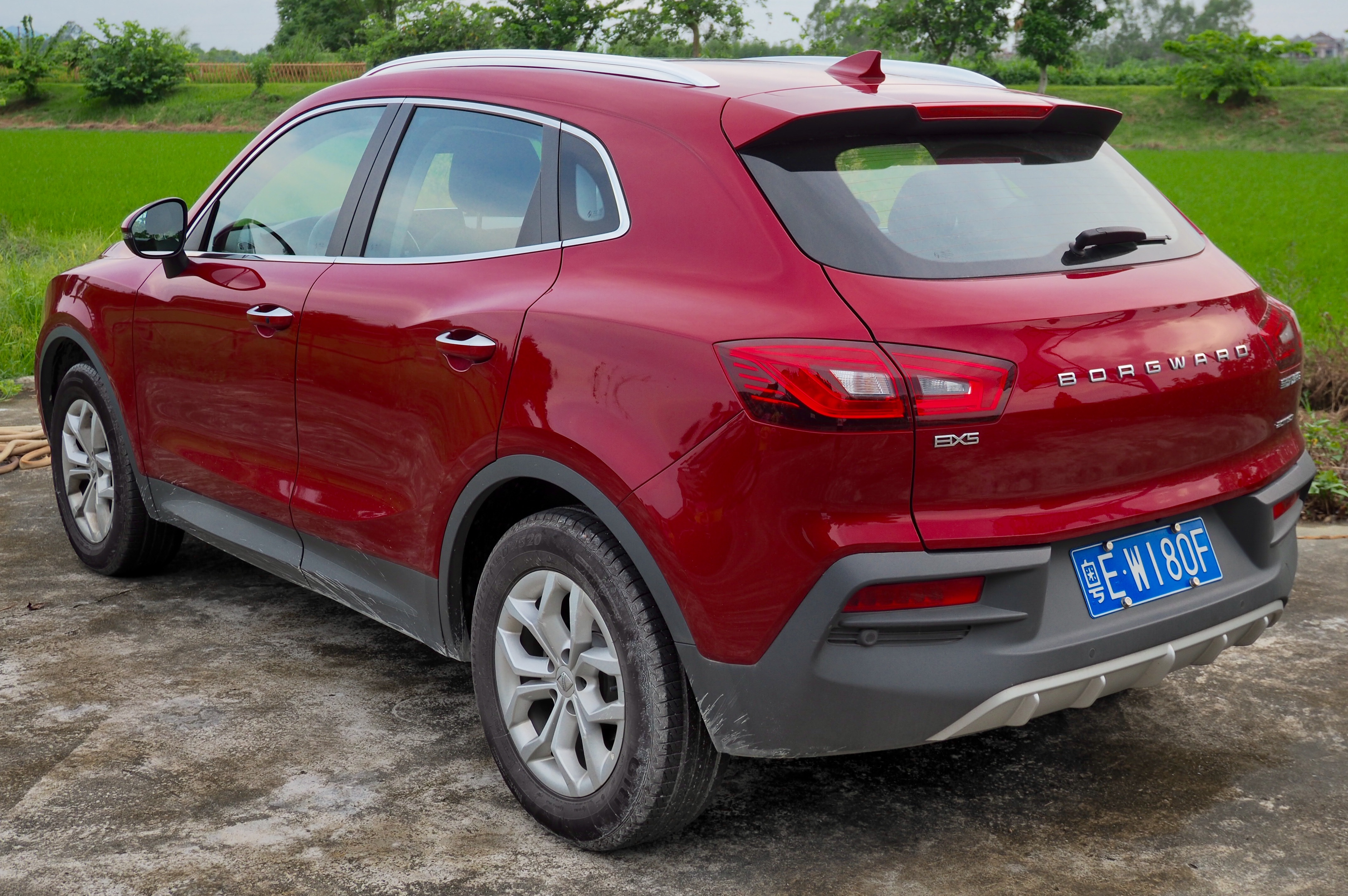 A 2018 Borgward BX5 photographed in Kaiping, Guangdong province, China. 中文（中国大陆）: 一辆2018年的宝沃BX5，拍摄于中国广东省开平市。